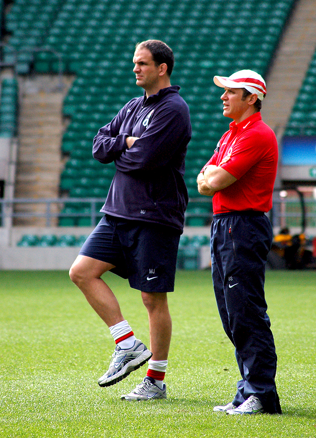 Martin Johnson and Brian Smith.